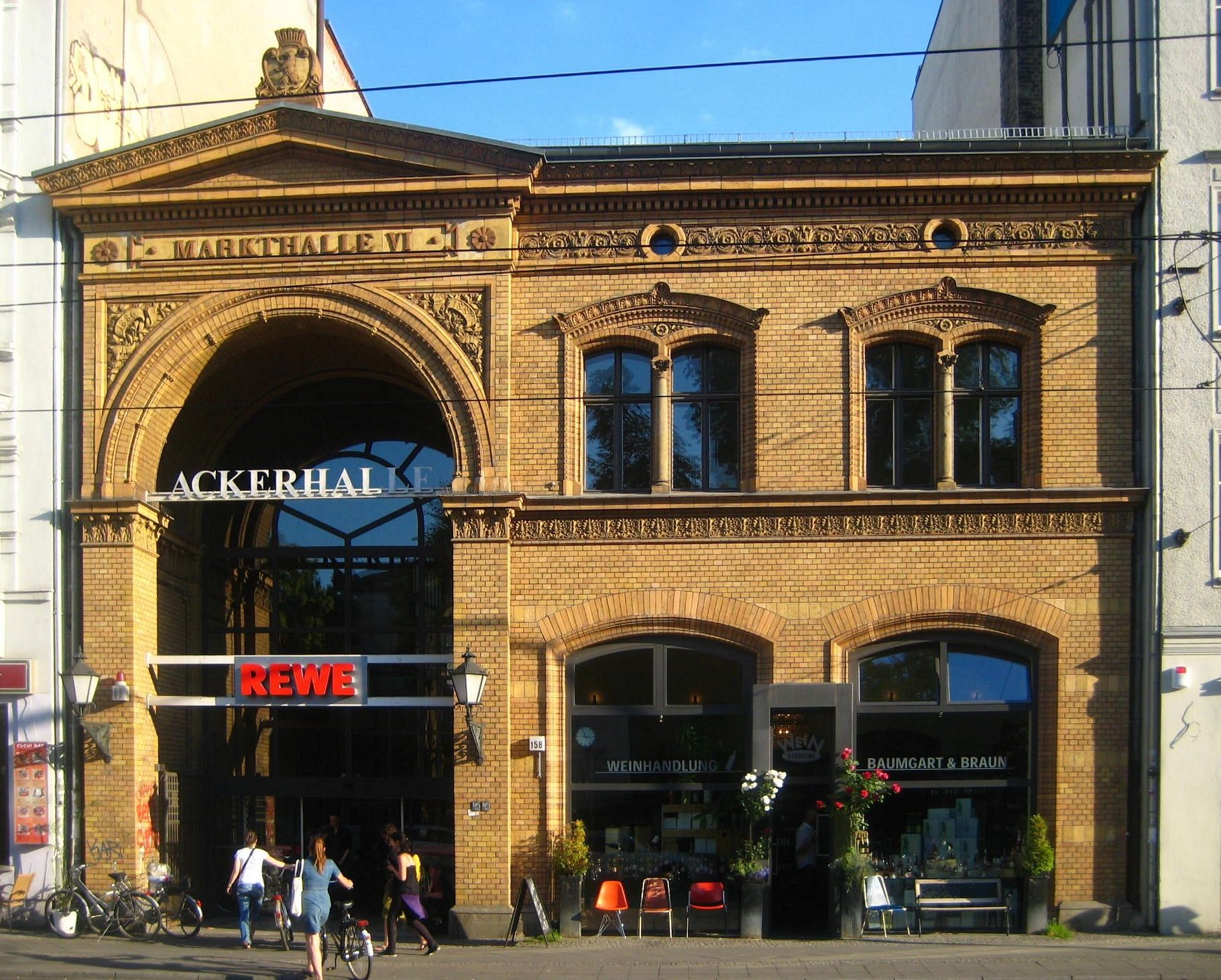 The Market Hall No. VI, also called Ackerhalle, in Berlin-Mitte; this is the northern entrance at Invalidenstraße No. 158. The market hall was built from 1886 to 1888 to a design by Hermann Blankenstein. It has been designated as a historic landmark.